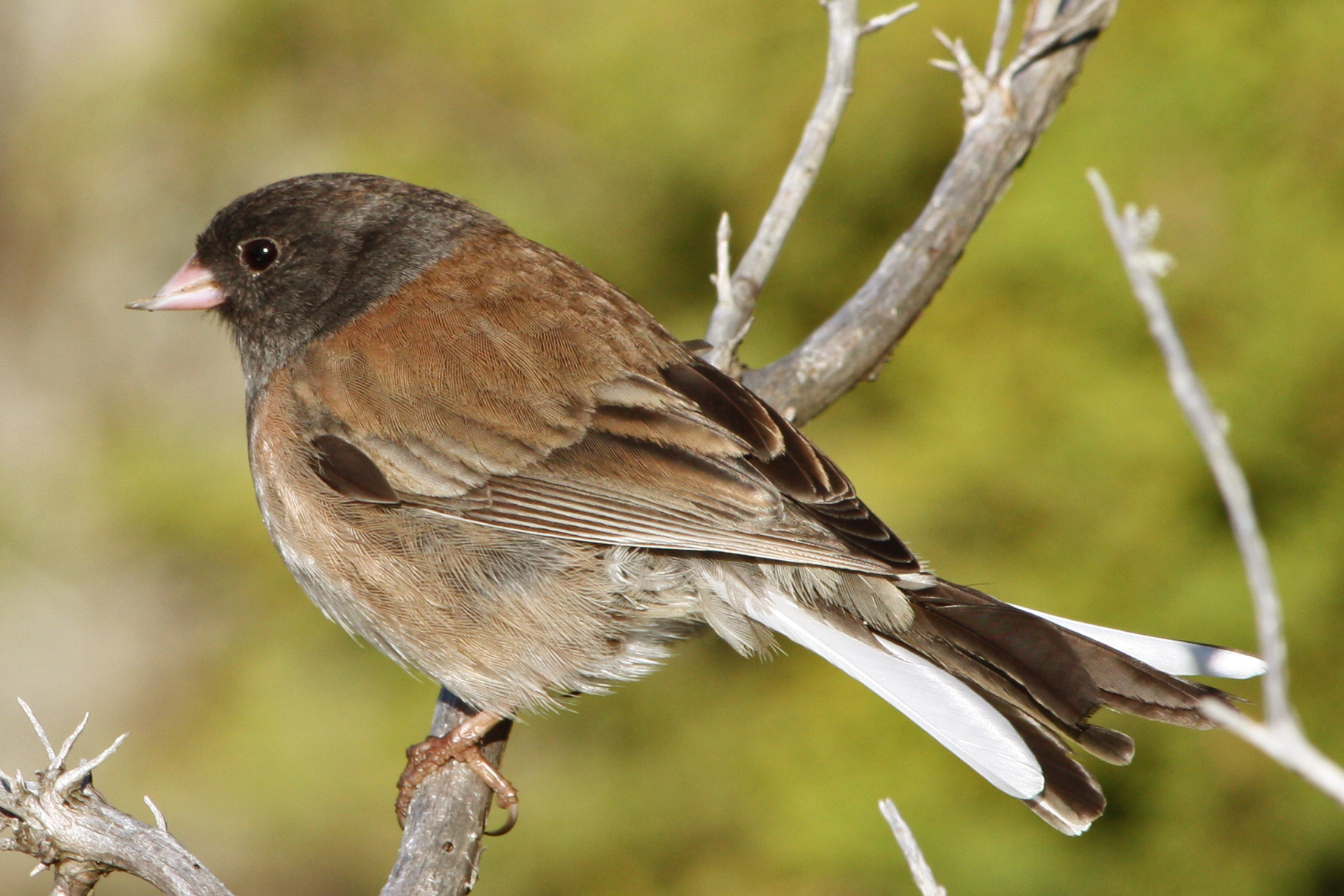 Oregon Junco, Oreganus Group